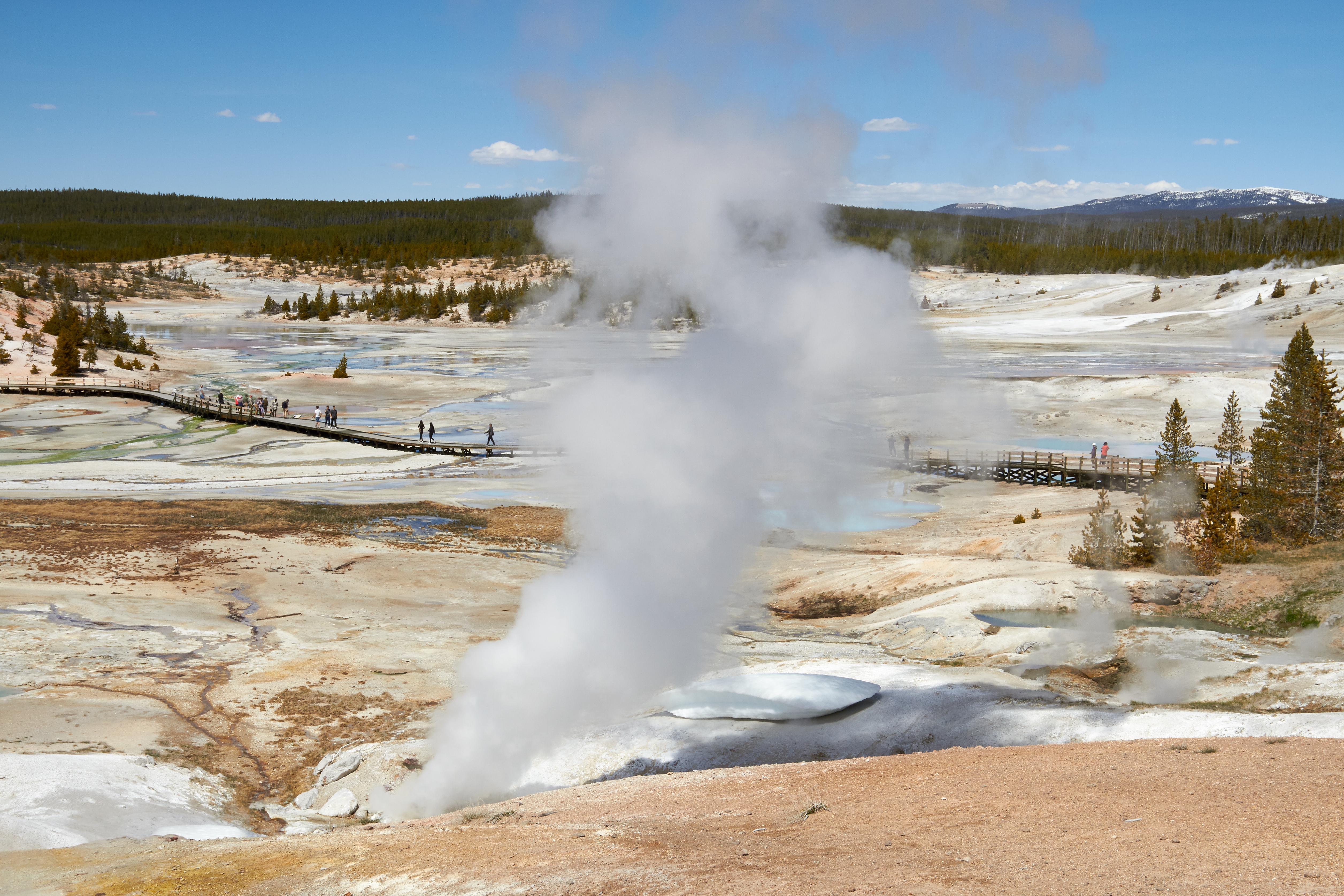 Norris Geyser Basin, Yellowstone National Park, Wyoming, United States in early May 2016